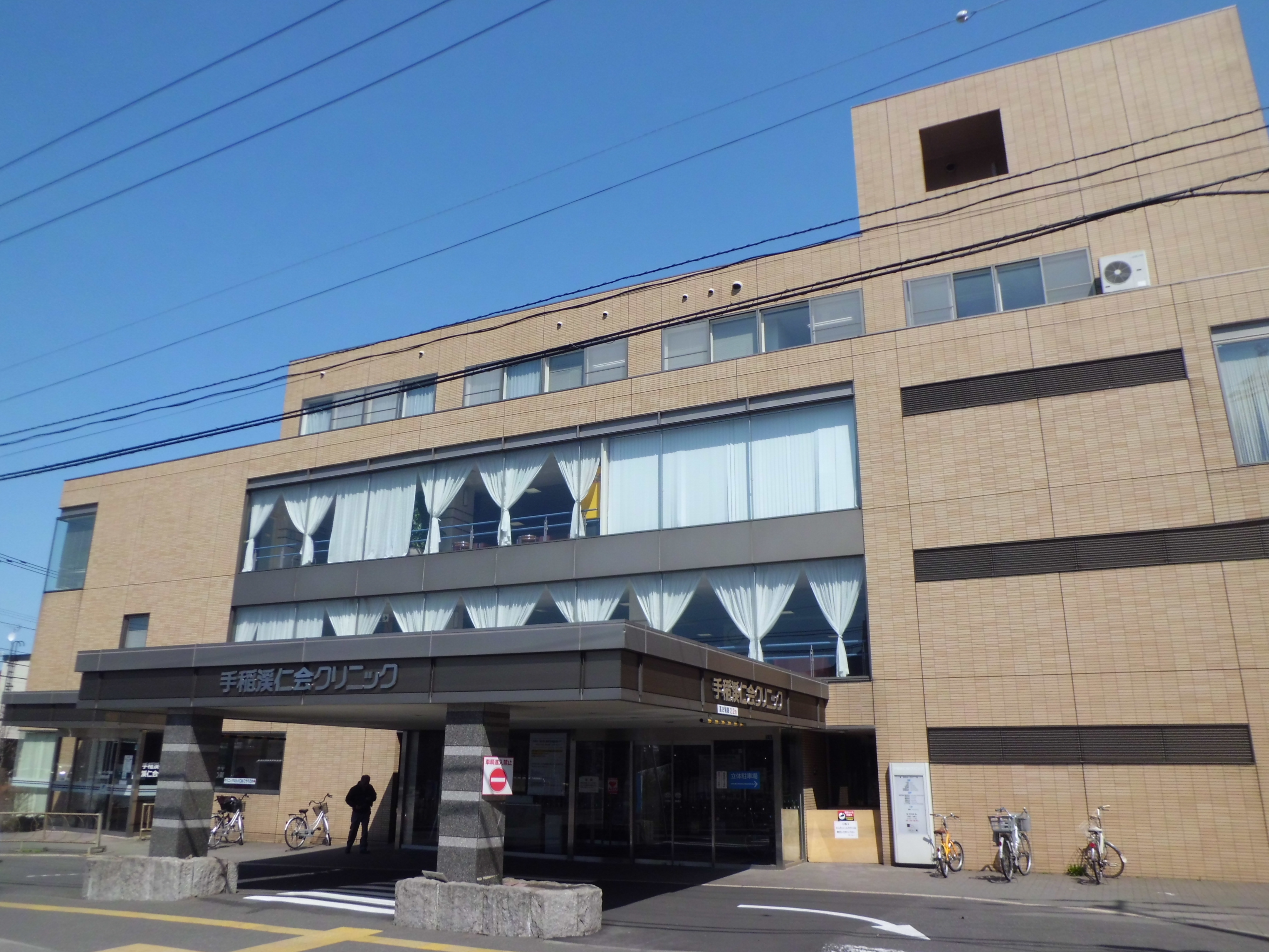 Tenie Keijinkai Clinic